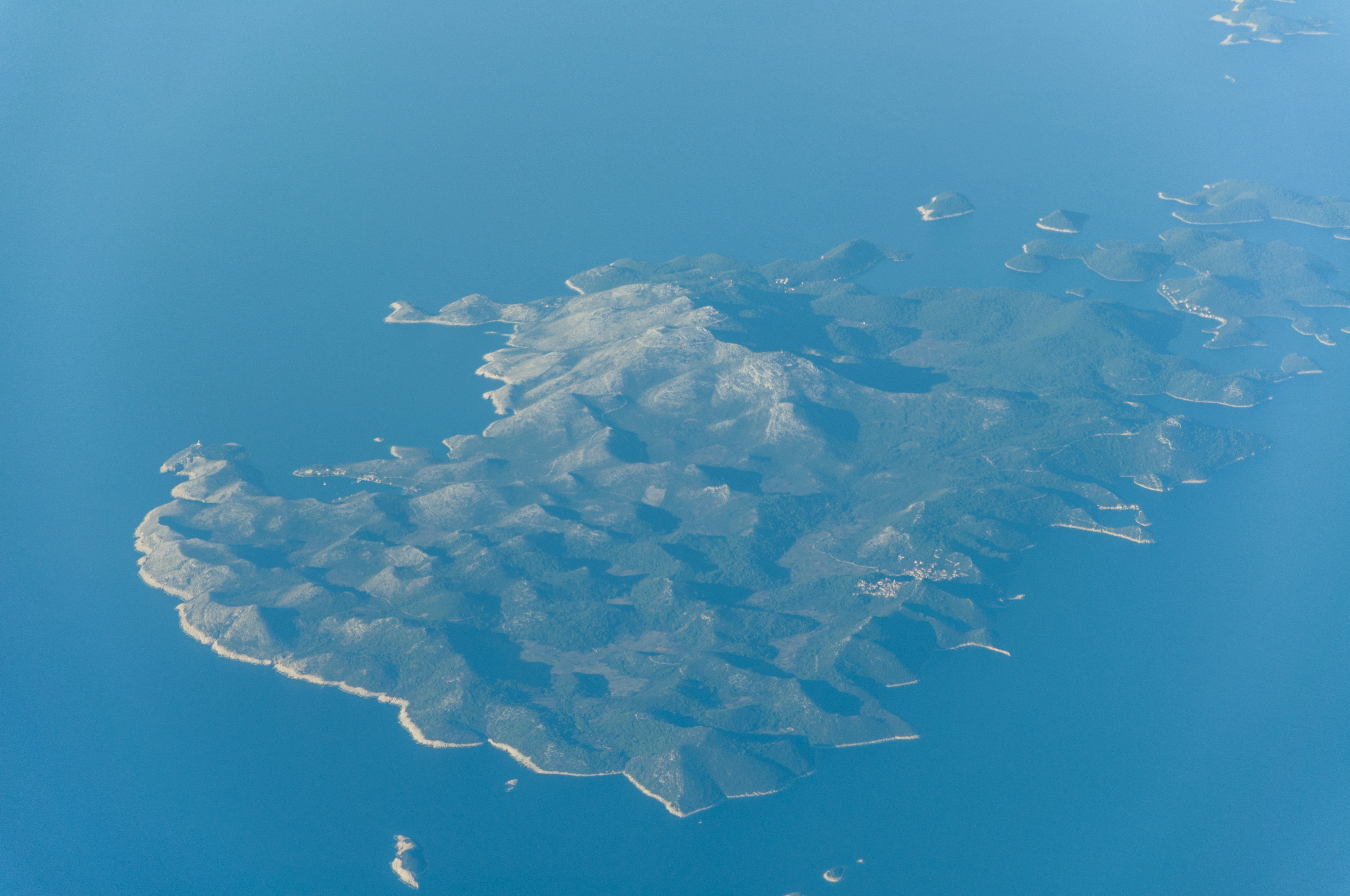 Island of Lastovo and surrounding islets Croatia, view overhead Oskorušno, Pelješac